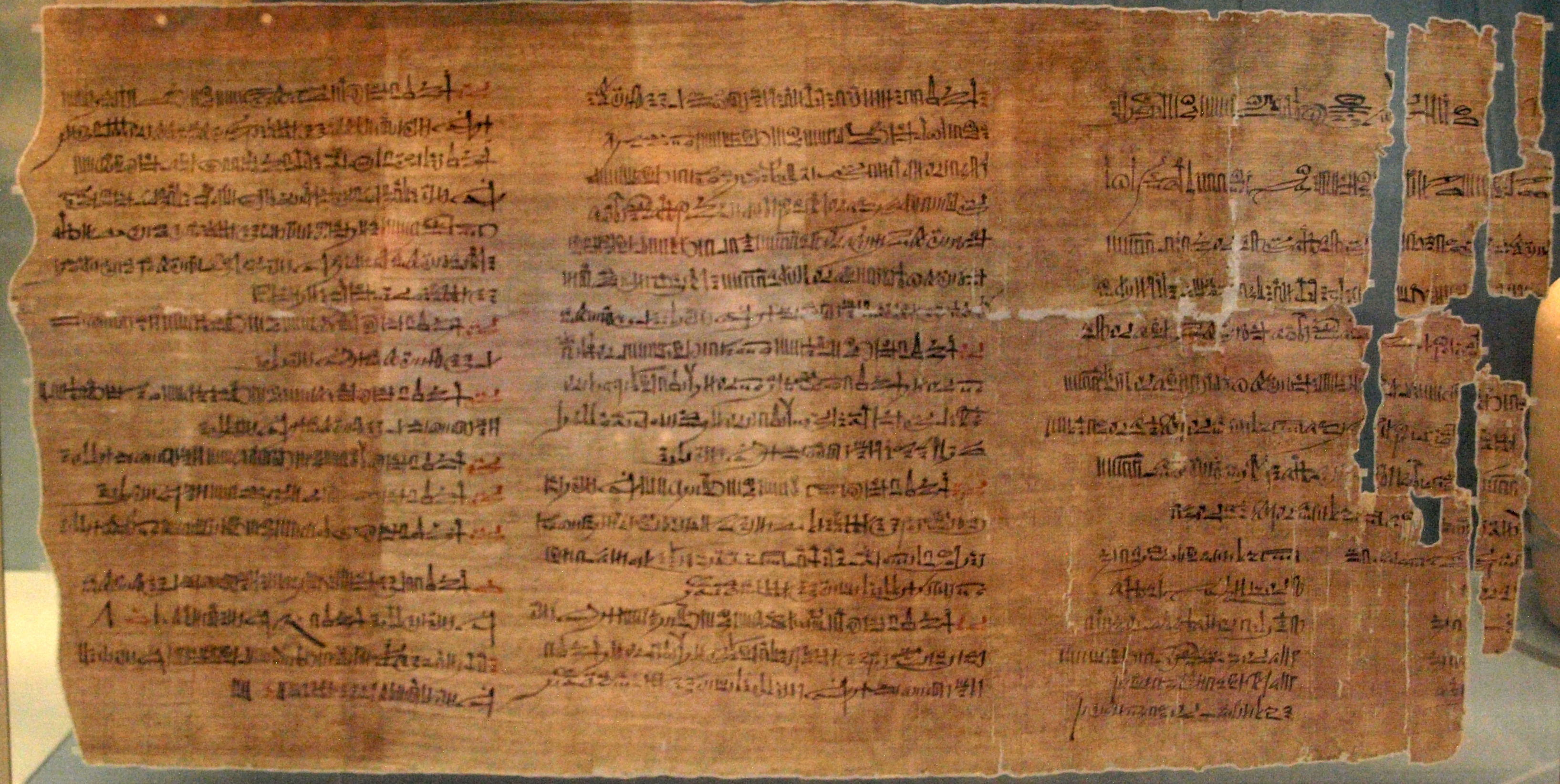 The Abbott Papyrus, which is a record of an official inspection of royal tombs in the Theban necropolis-(in hieratic; note red ink, as well as black). From the 16th regnal year of the pharaoh Ramesses IX, circa 1110 BC. EA 10221.